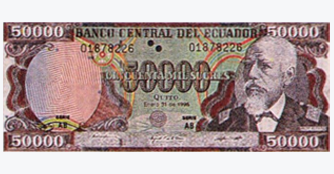 Ecuadorian 50,000 sucres bill.